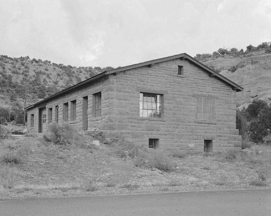 Saddlehorn Utility District warehouse, Colorado National Monument, Colorado. Historic American Buildings Survey—HABS image.